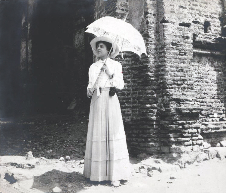 Grace Nail Johnson (Mrs. James Weldon Johnson), bridal photo in Panama 1910. (JWJ MSS 49)